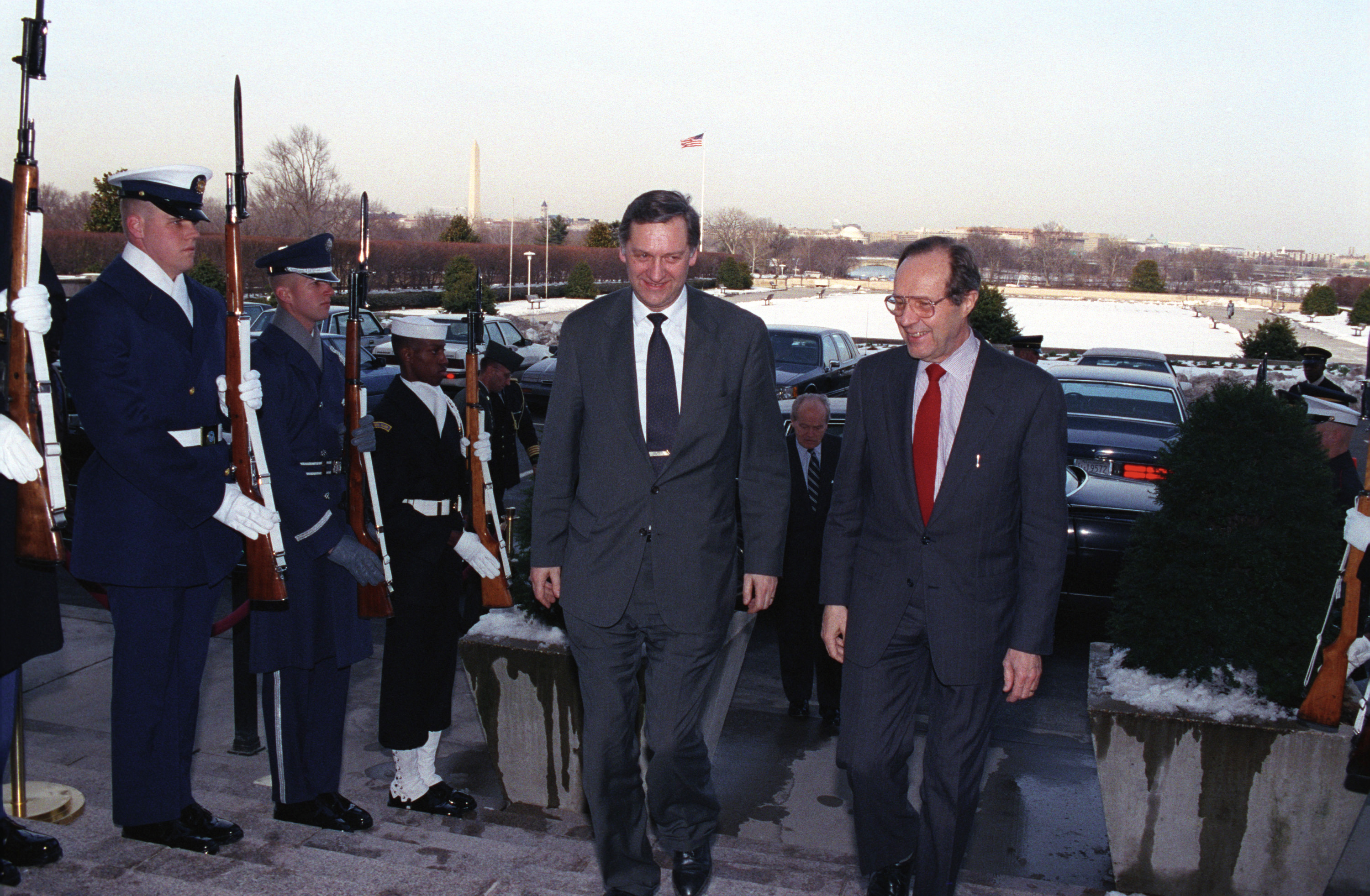 The Honorable William Perry (right), U.S. Deputy Secretary of Defense, escorts Johan Jørgen Holst, Norwegian Foreign Minister, through an Honor Cordon at the River Entrance of the Pentagon, Washington, D.C.